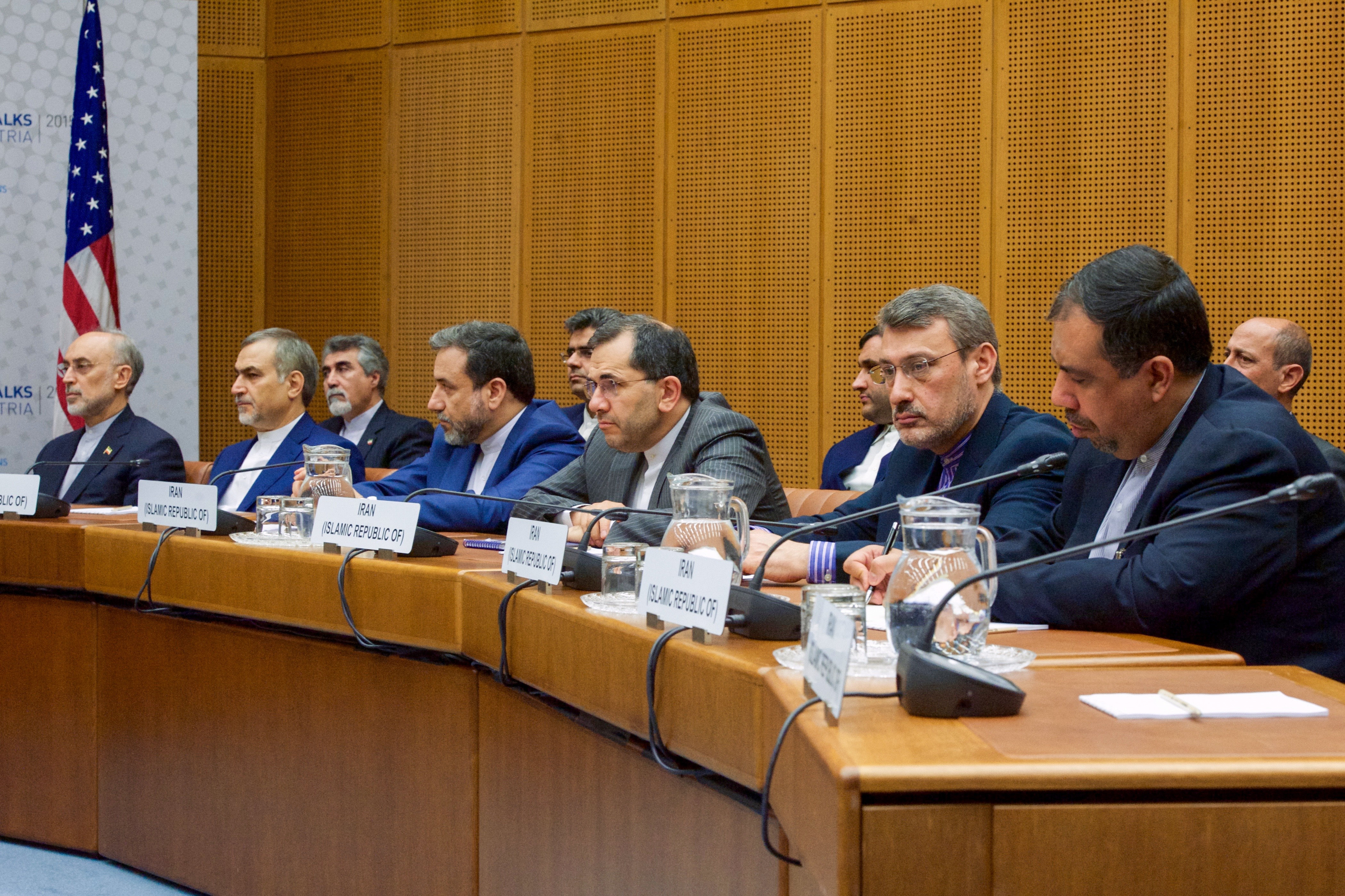 The Iranian delegation is pictured during the final plenary session of negotiations with European Union and P5+1 Foreign Ministers, including U.S. Secretary of State John Kerry, at the United Nations Office in Vienna, Austria, on July 14, 2015. [State Department photo/ Public Domain]